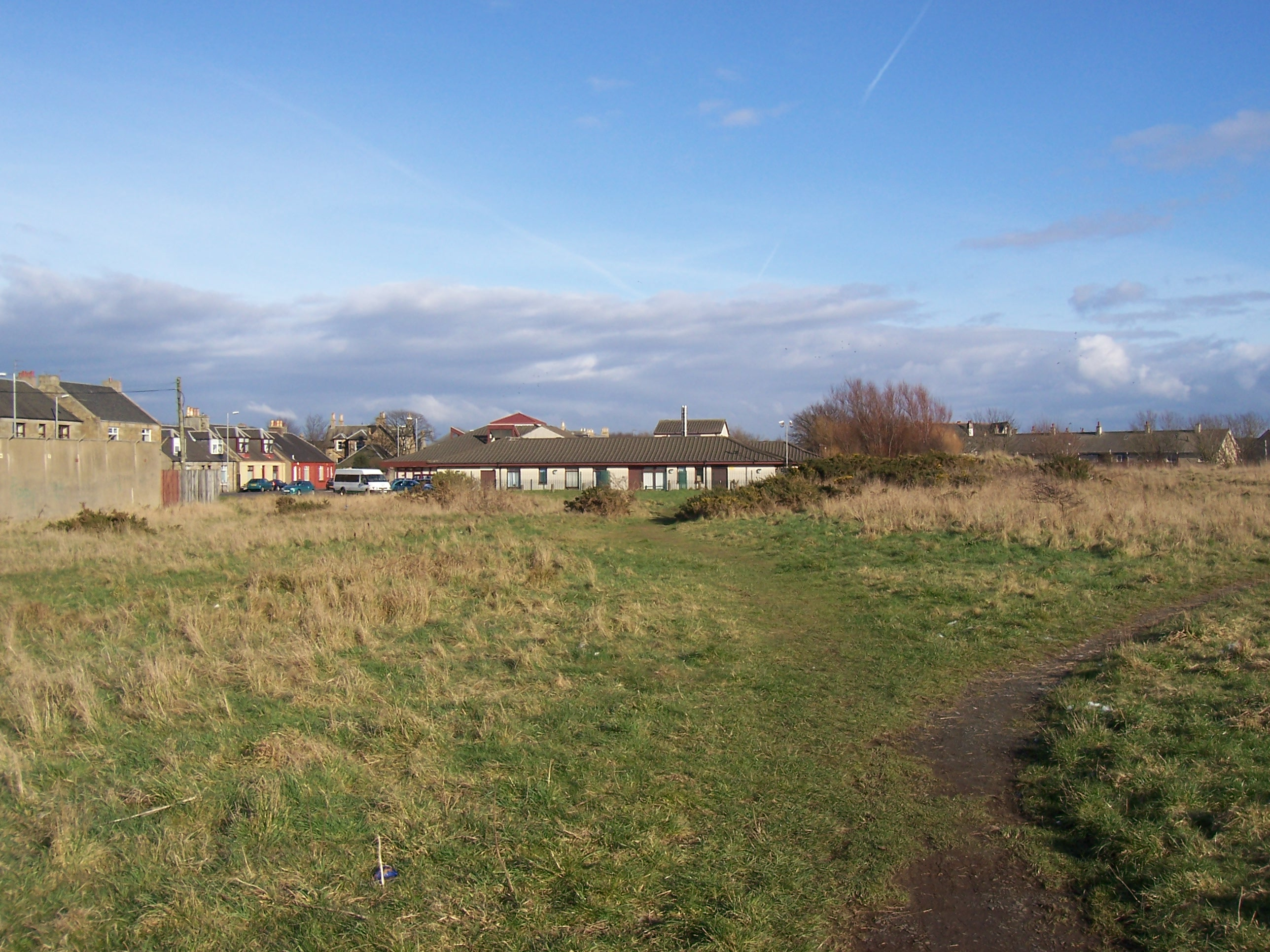 The site of Stevenston Moorpark railway station in February 2006. The building in the centre of the photograph is part of Caley Court, a residential home named after the Caledonian Railway. Photo by Dreamer84.